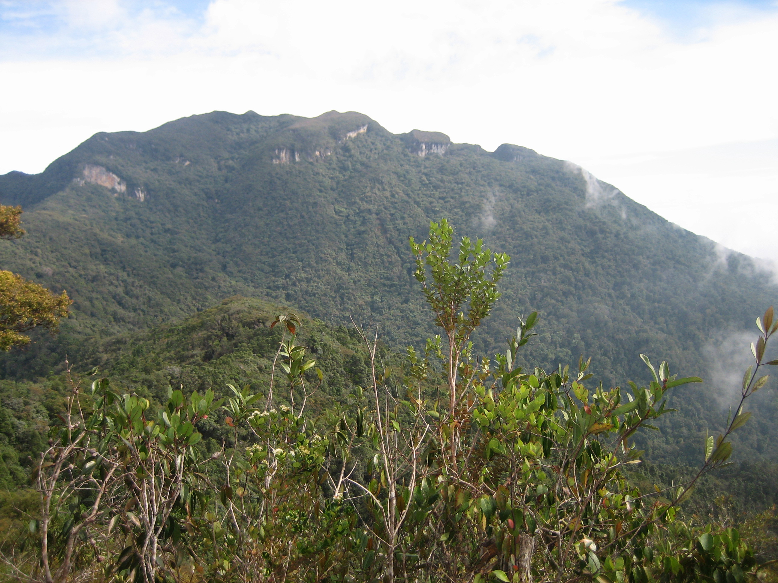 Gunung Tahan. Snapped from Gunung Tangga Lima Belas.